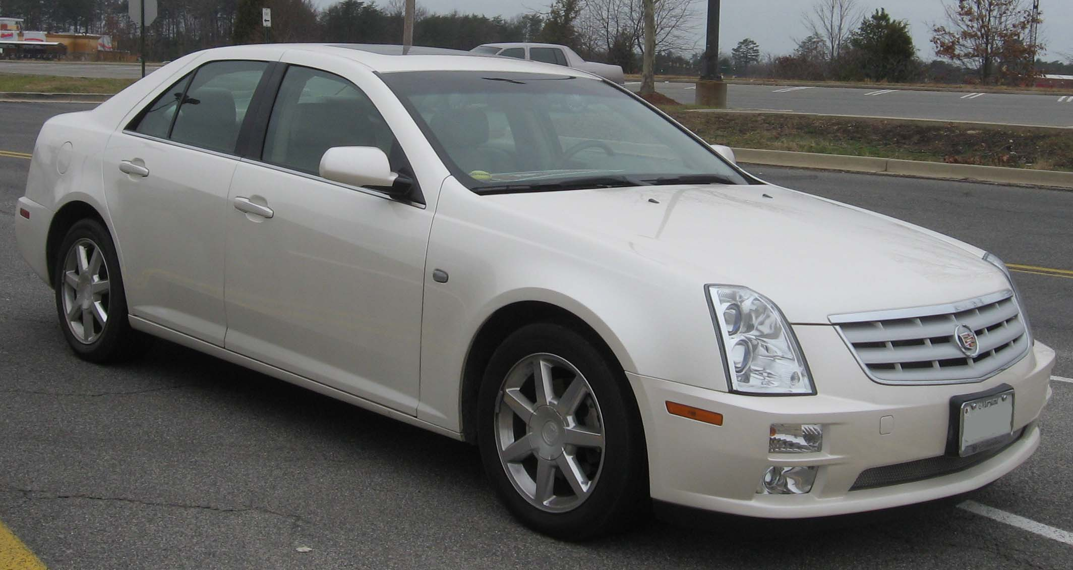 2005-2007 Cadillac STS photographed in Waldorf, Maryland, USA.